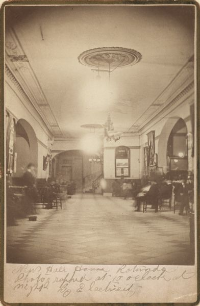 Newhall House Hotel, Milwaukee - interior; 1881